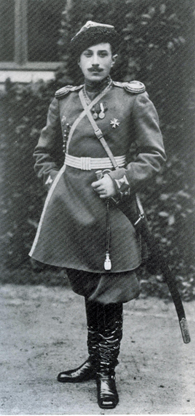 Prince Sergei Mikhailovich Putiatin